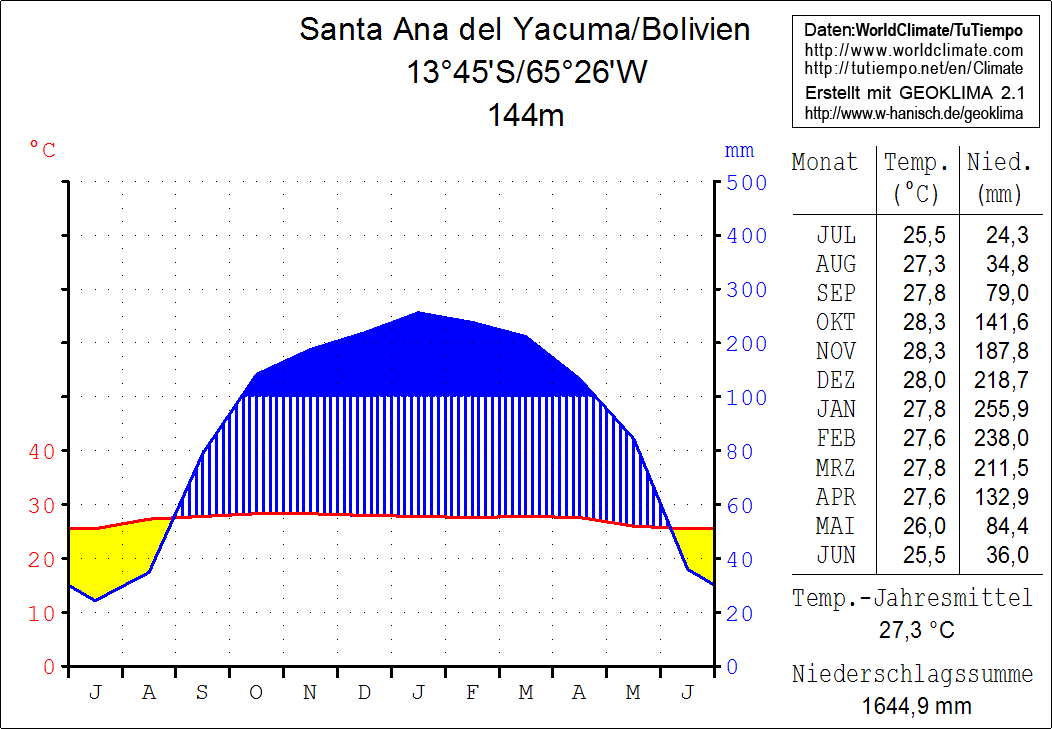 Climate chart in the Walter and Lieth format, metric, °Celsius und millimeters, made with Geoklima 2.1